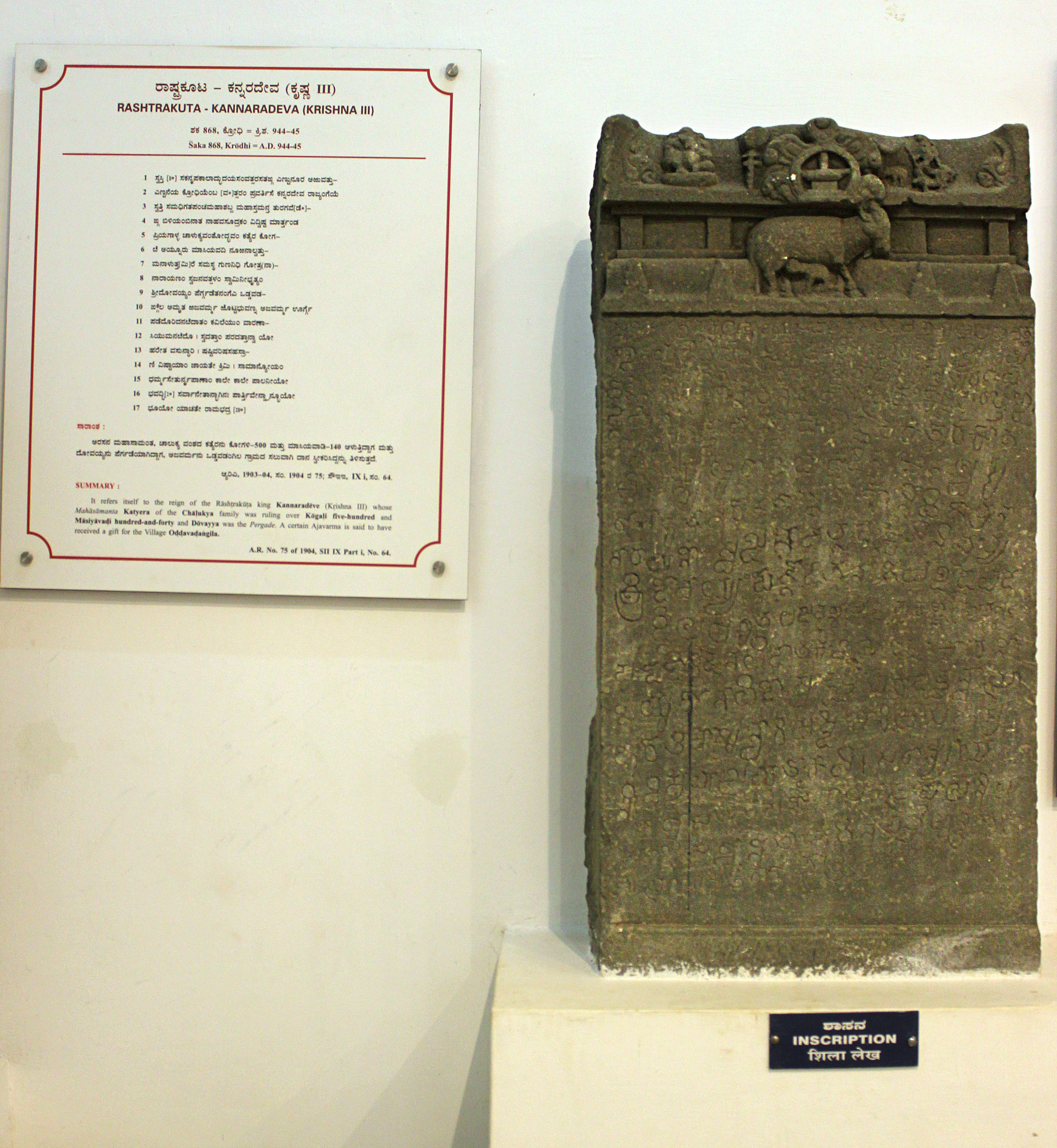 This photograph was taken by me at the ASI museum at Bagali (known as Balgali in ancient inscriptions), Davangere district, Karnataka state, India.